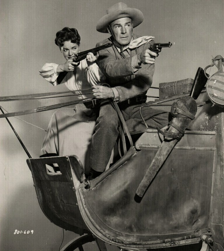 Joan Weldon & Randolph Scott in Riding Shotgun - publicity still (cropped)